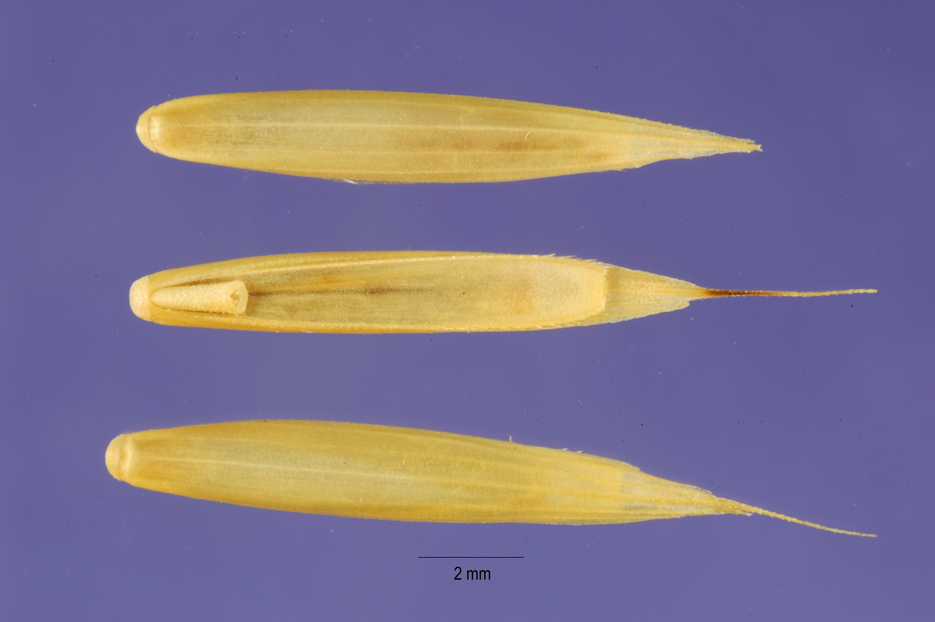 Brachypodium pinnatum from Jose Hernandez. Provided by ARS Systematic Botany and Mycology Laboratory. Greece, Athens.